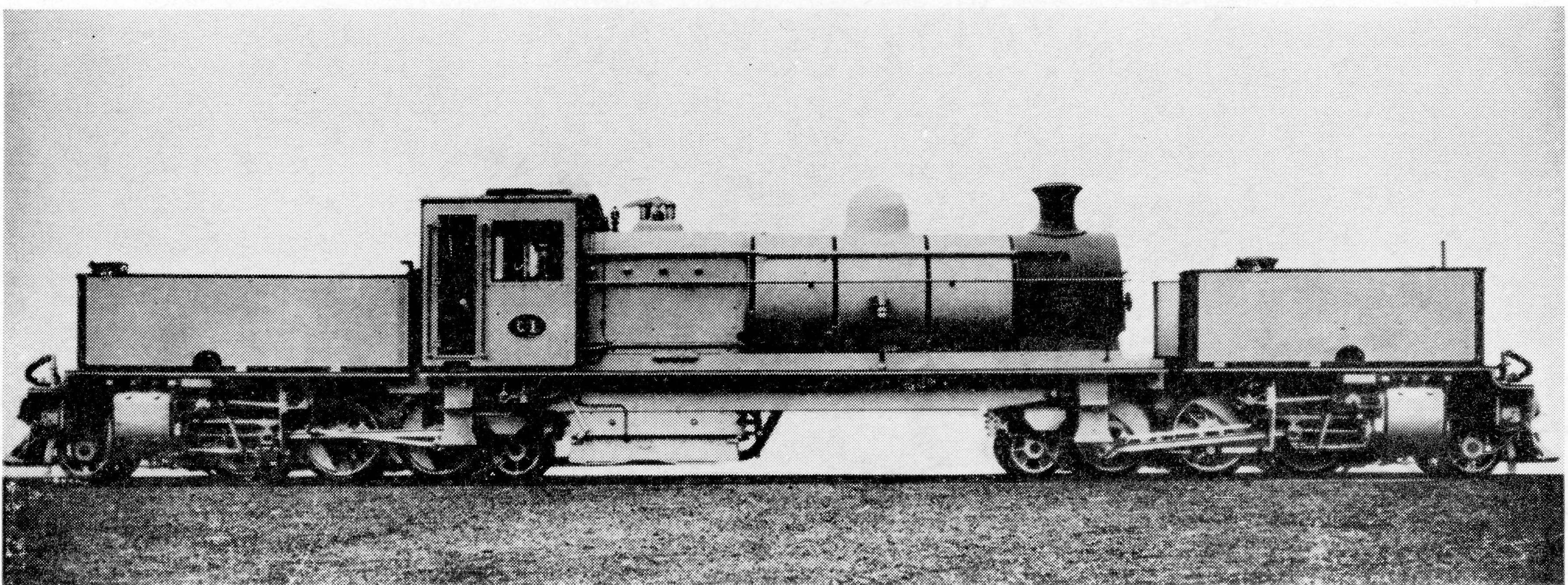 SAR Class GK 2340 (2-6-2+2-6-2), ex NCCR G1, renumbered from NCCR 12